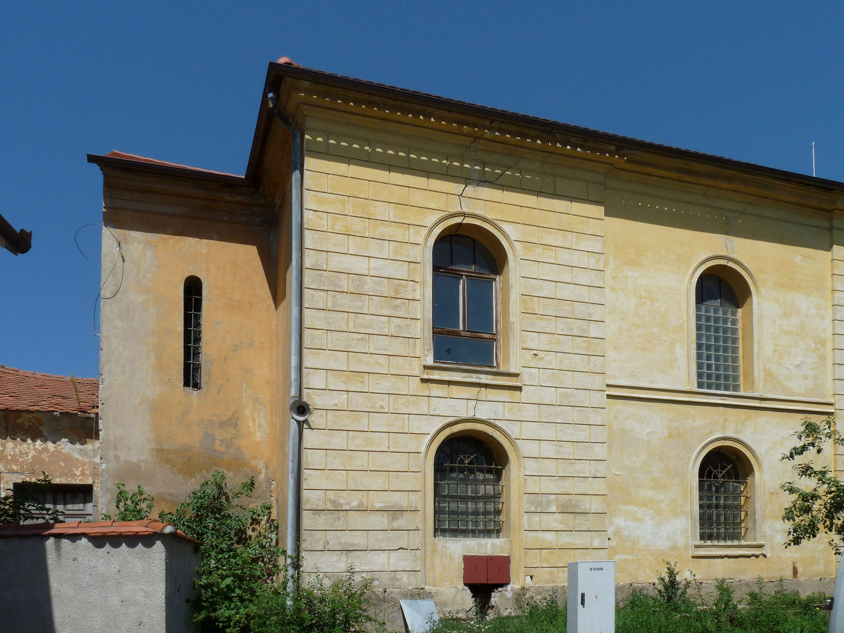 Former synagogue in the town of Ivančice, Brno-Country District, Czech Republic.